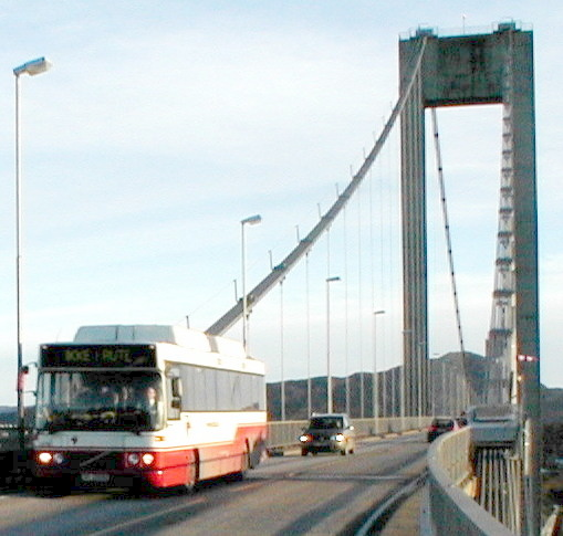 Photo taken by Gunnar Buvik. Suspension bridge Sotrabrua in Norway.